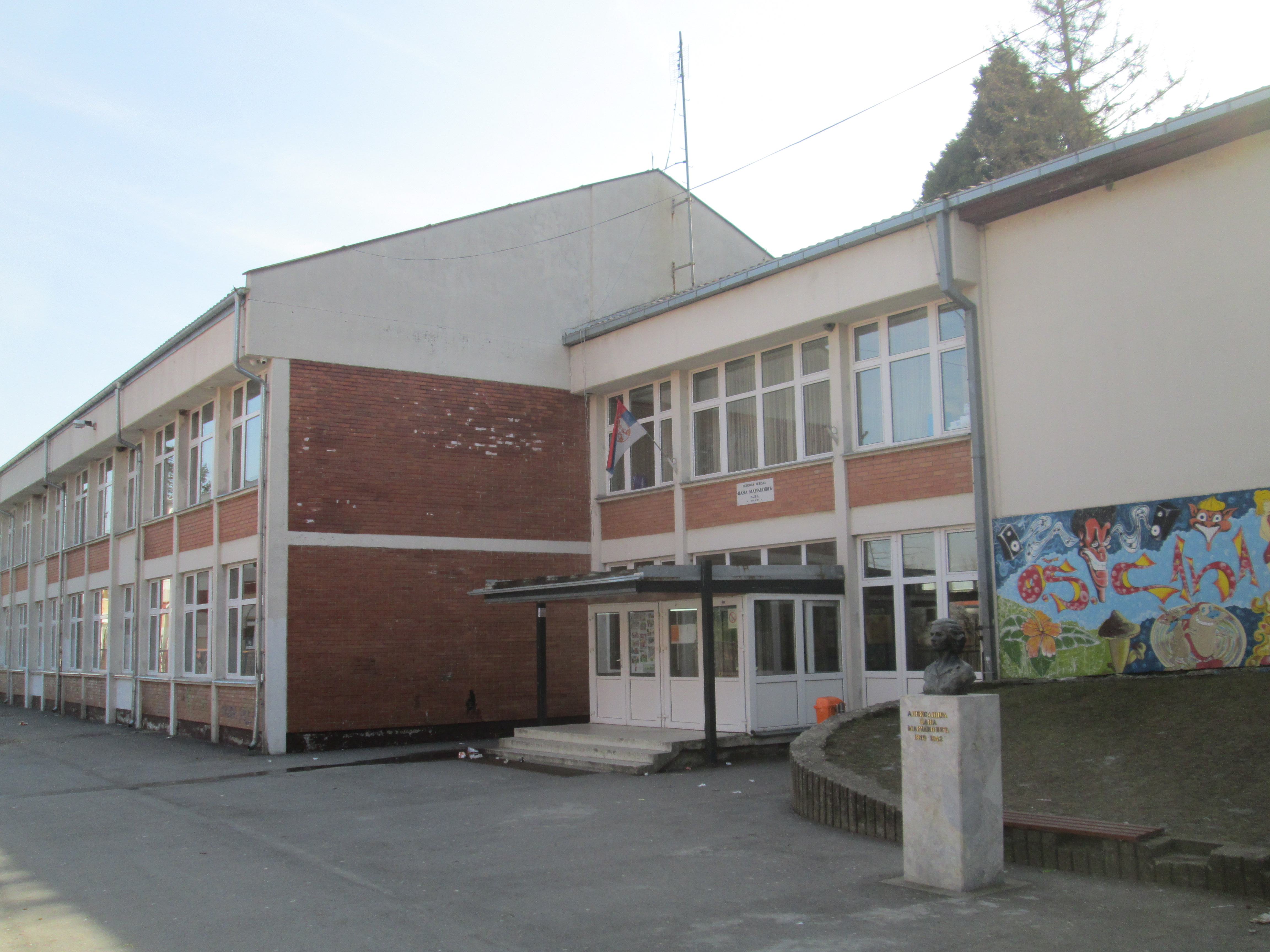 Primary school "Cana Marjanovic", Ralja.Српски (ћирилица): Основна школа „Цана Марјановић“, Раља.